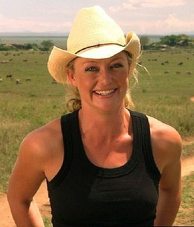 Australian television presenter Shelley Craft working for The Great Outdoors in 2006